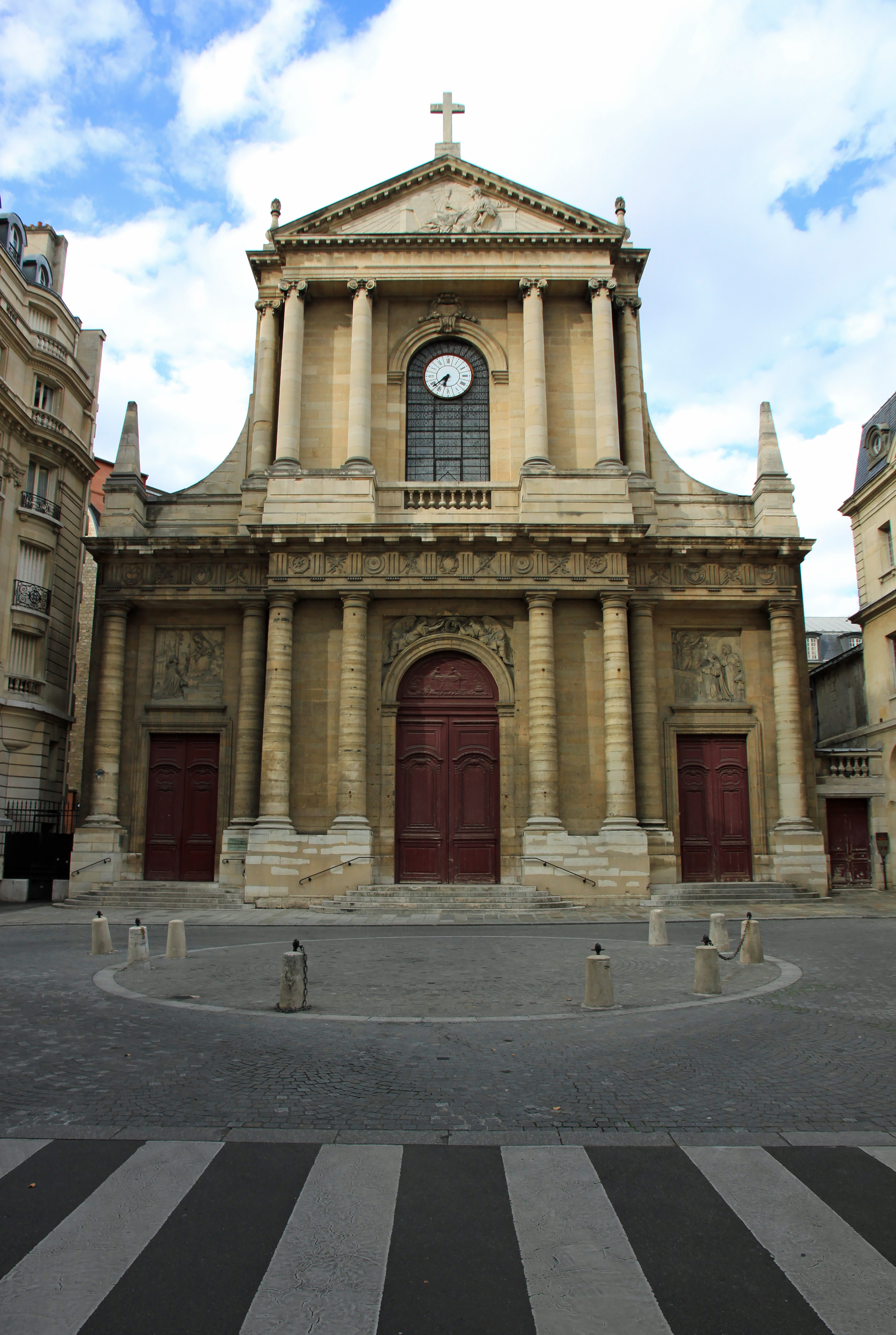 Saint-Thomas-d'Aquin church, built by Pierre Bullet around 1682-1683, Paris.